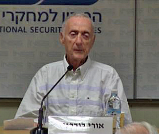 תמונה של אורי לוברני מיוני 2013 נואם במכון למחקרי ביטחון לאומי